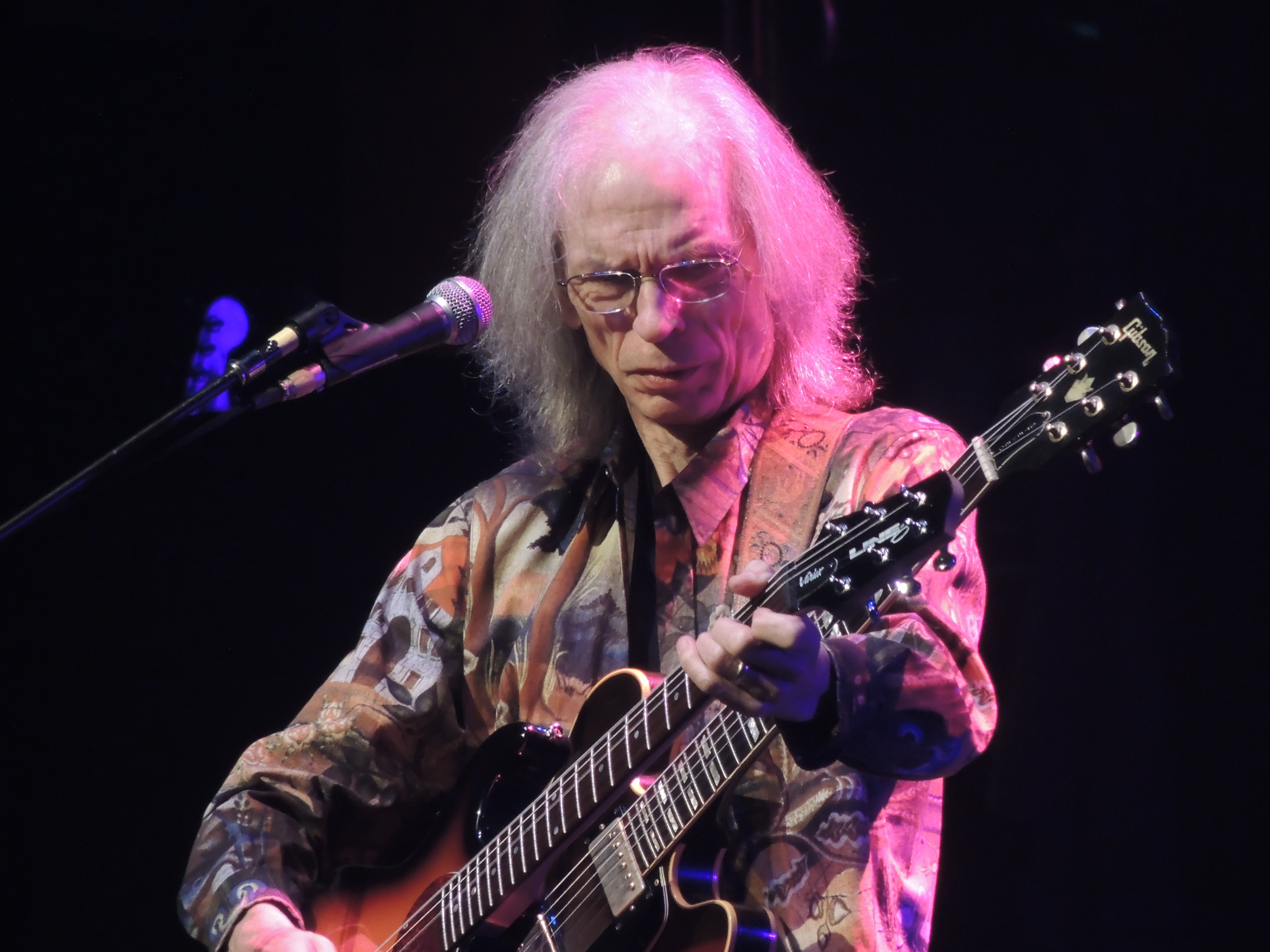 Steve Howe at the Beacon Theater on April 9, 2013.